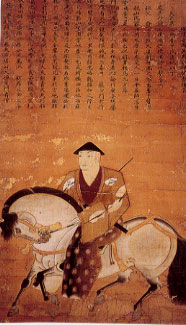 This photograph is in the public domain in Japan because its copyright has expired according to Article 23 of the 1899 Copyright Act of Japan (English translation) and Article 2 of Supplemental Provisions of Copyright Act of 1970. This is when the photograph meets one of the following conditions: It was published before January 1, 1957. It was photographed before January 1, 1947. It is also in the public domain in the United States because its copyright in Japan expired by 1970 and was not restored by the Uruguay Round Agreements Act. To uploader: Please provide the source and publication date. If the photograph was also published in the United States within 30 days after publication in Japan, it might be copyrighted. If the copyright has not expired in the U.S, this file will be deleted. See Commons:Hirtle chart. This template should not be used for a faithful photographic reproduction of an artwork. Under Article 23 of the former Copyright Act, its protection will be consistent with the artwork. See also Commons:When to use the PD-Art tag.